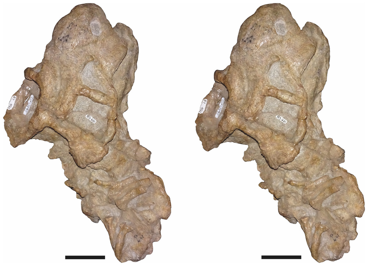 Figure 13: Stereopair of CGP/1/970, referred specimen of Bulbasaurus phylloxyron gen. et sp. nov., in semi-dorsal view. Scale bars equal 5 cm.